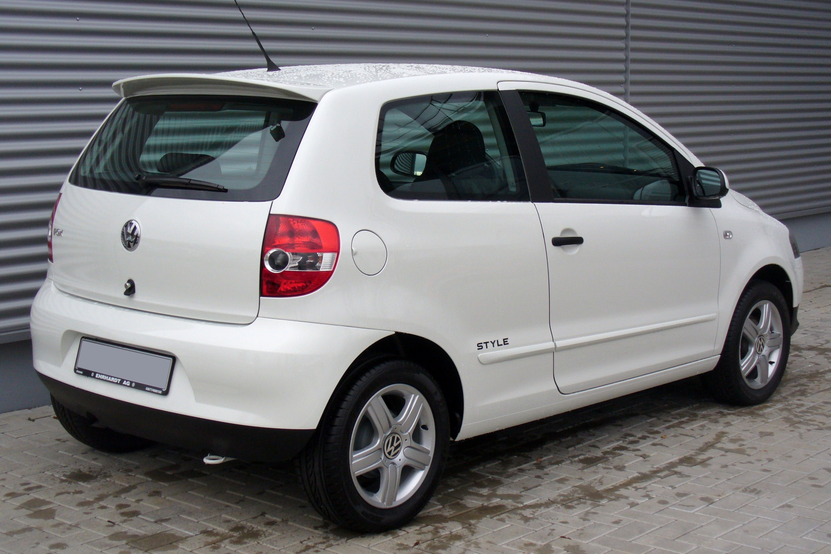 VW Fox Style